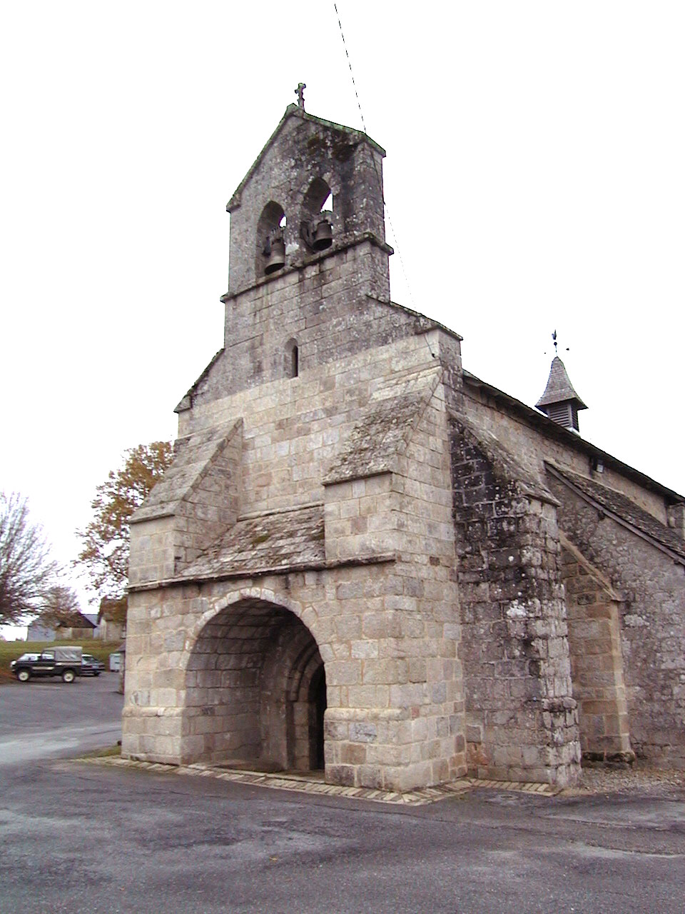 Church of Darnets, Corrèze, France